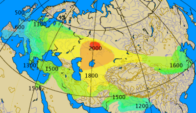 Historical spread of the chariot. This map combines various classes of information, historical and archaeological. The 'isochrones' as given should not be considered more than rough approximations, give or take a century. red, 2000 BC: area of the earliest known spoke-wheeled chariots (Sintashta-Petrovka culture) orange, 1900 BC: extent of the Andronovo culture, expanding from its early Sintashta-Petrovka phase; spread of technology in this area would have been unimpeded and practically instantaneous yellow, 1800 BC: extent of the great steppes and semi-deserts of Central Asia, approximate extent of the early Indo-Iranian diaspora at that time. Note that early examples of chariots appear in Anatolia as early as around this time. light green, 1700 BC: unknown, early period of spread beyond the steppes green/cyan, 1600-1200 BC: the Kassite period in Mesopotamia, rise to notability of the chariot in the Ancient Near East, introduction to China, possibly also to the Punjab and the Gangetic plain (Rigveda) and E and N Europe (Trundholm Sun Chariot), assumed spread of the chariot as part of Late Bronze Age technology blue, 1000-500 BC: Iron Age spread of the chariot to W Europe by Celtic migrations